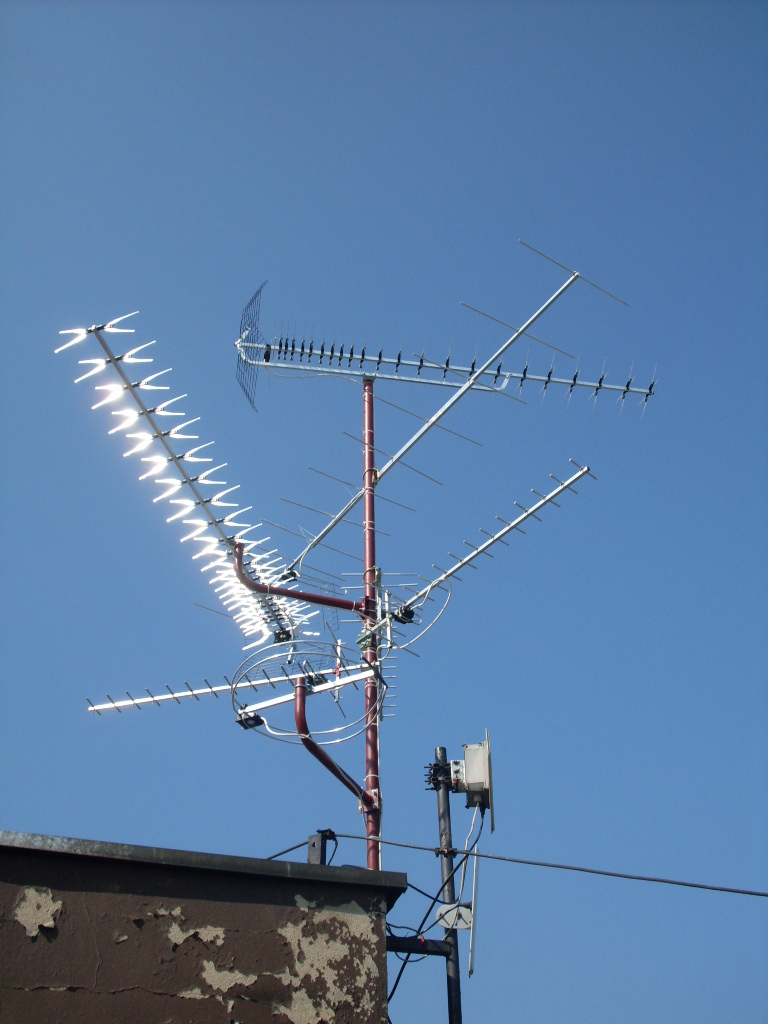 Receiving antennas (headend) of a Cable-TV network